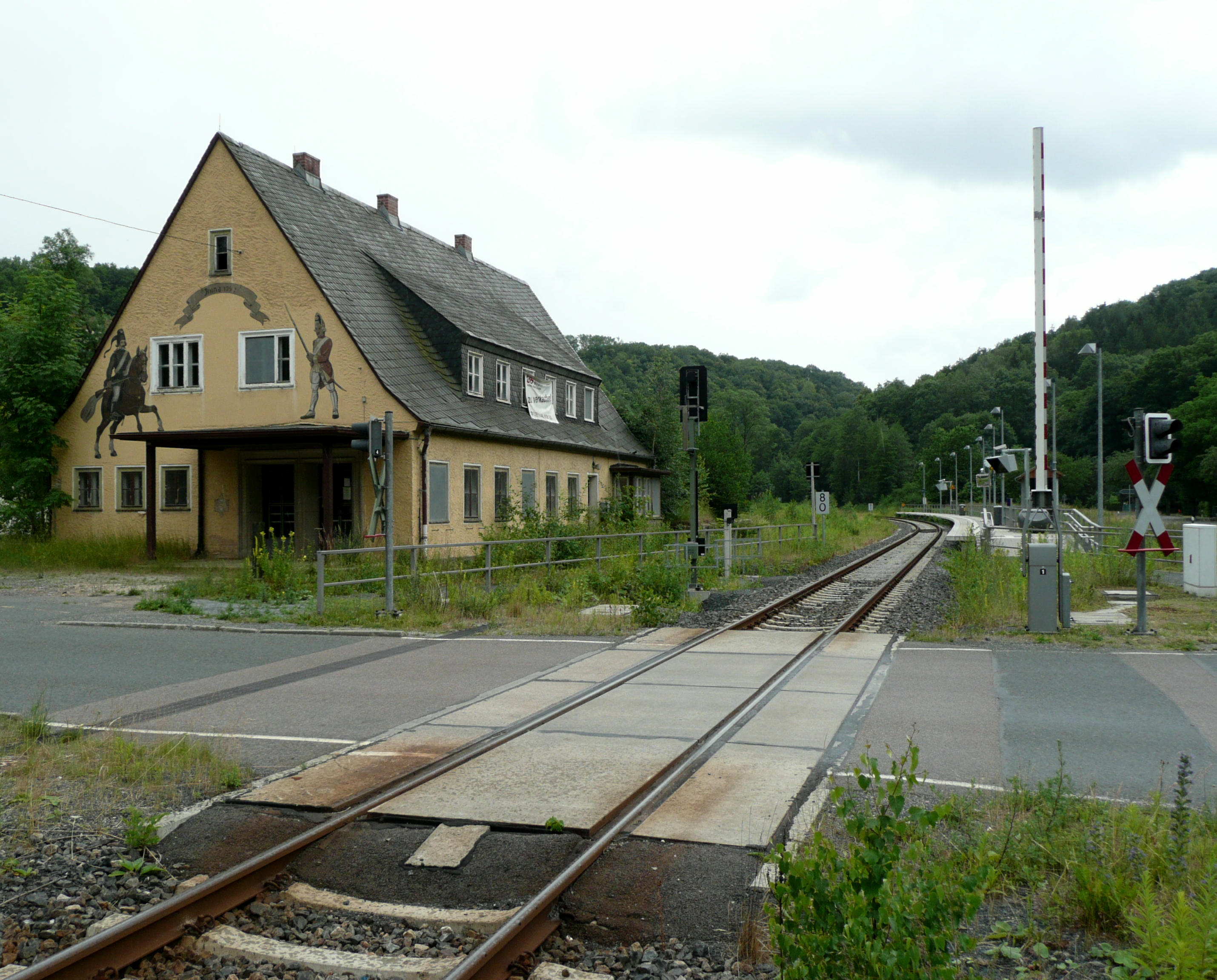 This image shows the station Burkhardswalde-Maxen (railway Heidenau - Altenberg (Müglitztalbahn)).